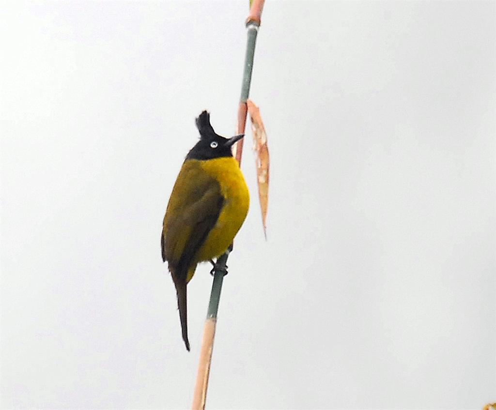 Black-crested Bulbul Pycnonotus flaviventris, Frasers Hill, Malaysia